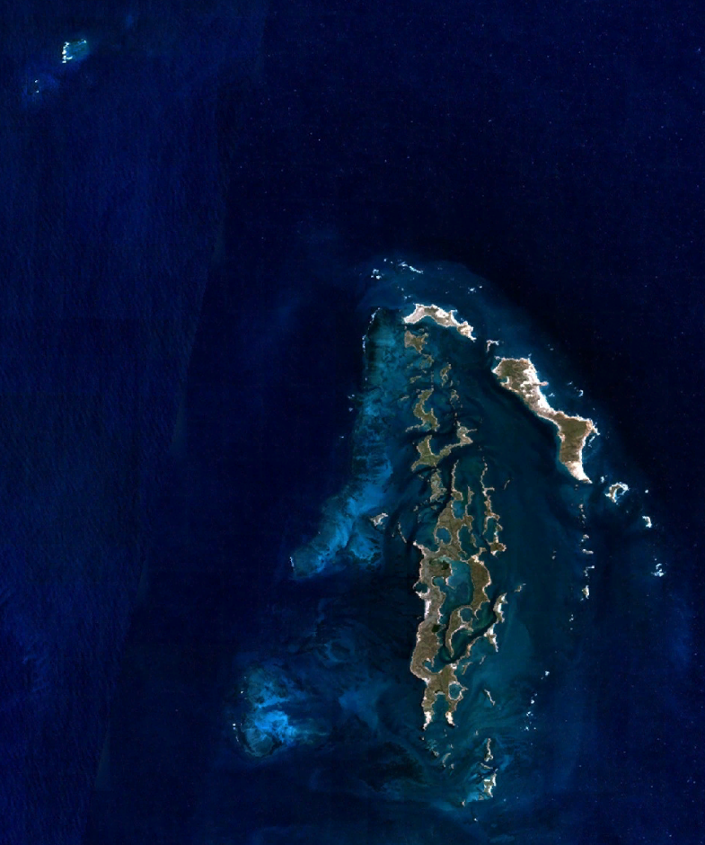 This is an image of the Montebello Islands, showing the Tryal Rocks in the top left hand corner.